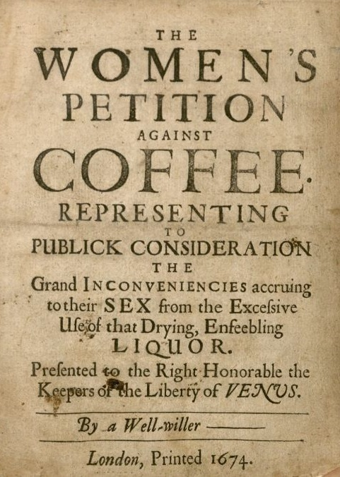 Title page for Women's Petition Against Coffee, an anonymous pamphlet published in London in 1674. *EC65.A100.674w, Houghton Library, Harvard University